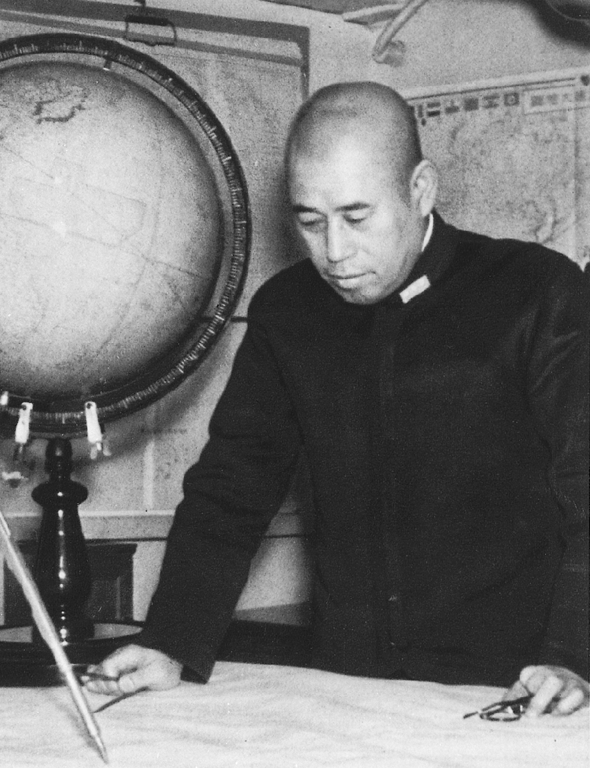 Admiral Isoroku Yamamoto, Imperial Japanese Navy Planning meeting photograph on battleship Nagato sometime in 1940, when he was Commander in Chief, Combined Fleet. Note that this is an exerpt of a larger image that shows other staff members at the meeting, including one holding the large dividers partially seen here.